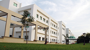 Teaching and learning block 1 named after the famous Islamic mathematician, astronomer and a geographer, Abū ʿAbdallāh Muḥammad ibn Mūsā al-Khwārizmi in a buildup area of 7300 Square metres.